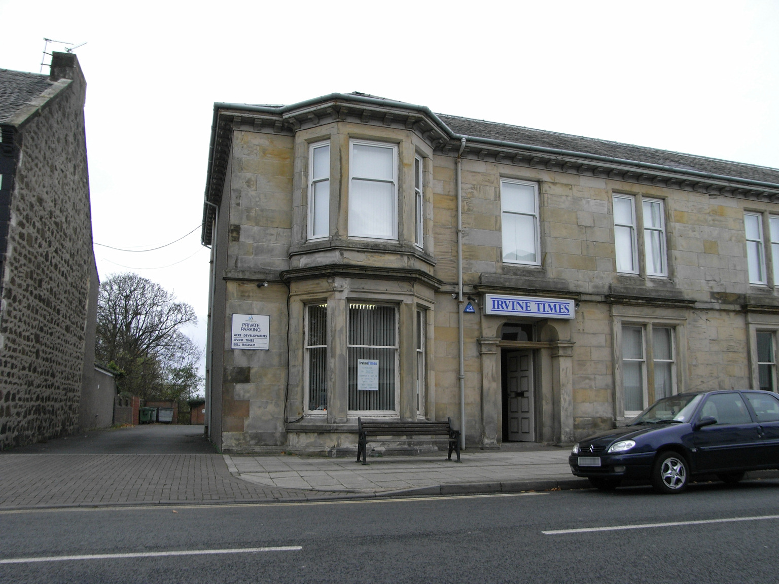 The former station building at Irvine Bank Street, now used by the Irvine Times newspaper. Photo by Dreamer84, taken on 6 November 2007.